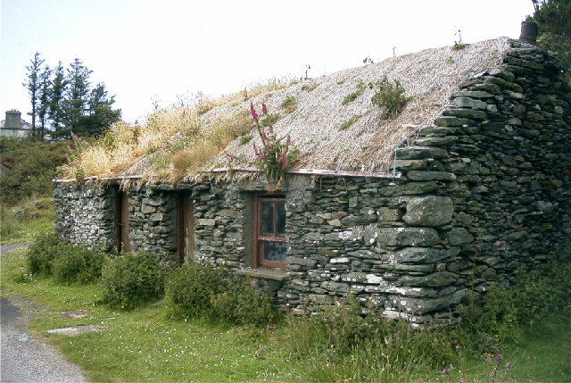 Abandoned cottage, Malin More. Alongside the back road from the crossroads in Malin More to Carrick.